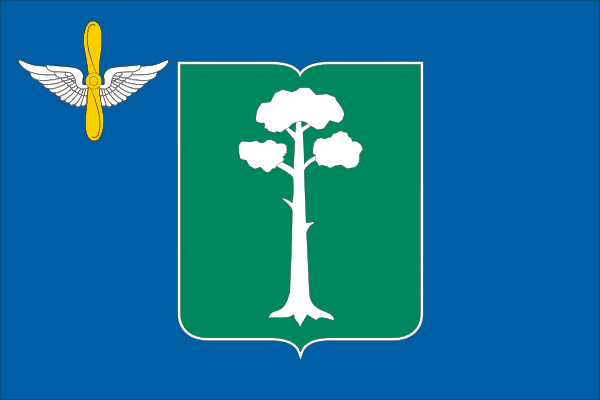 North-West district in Moscow, flag